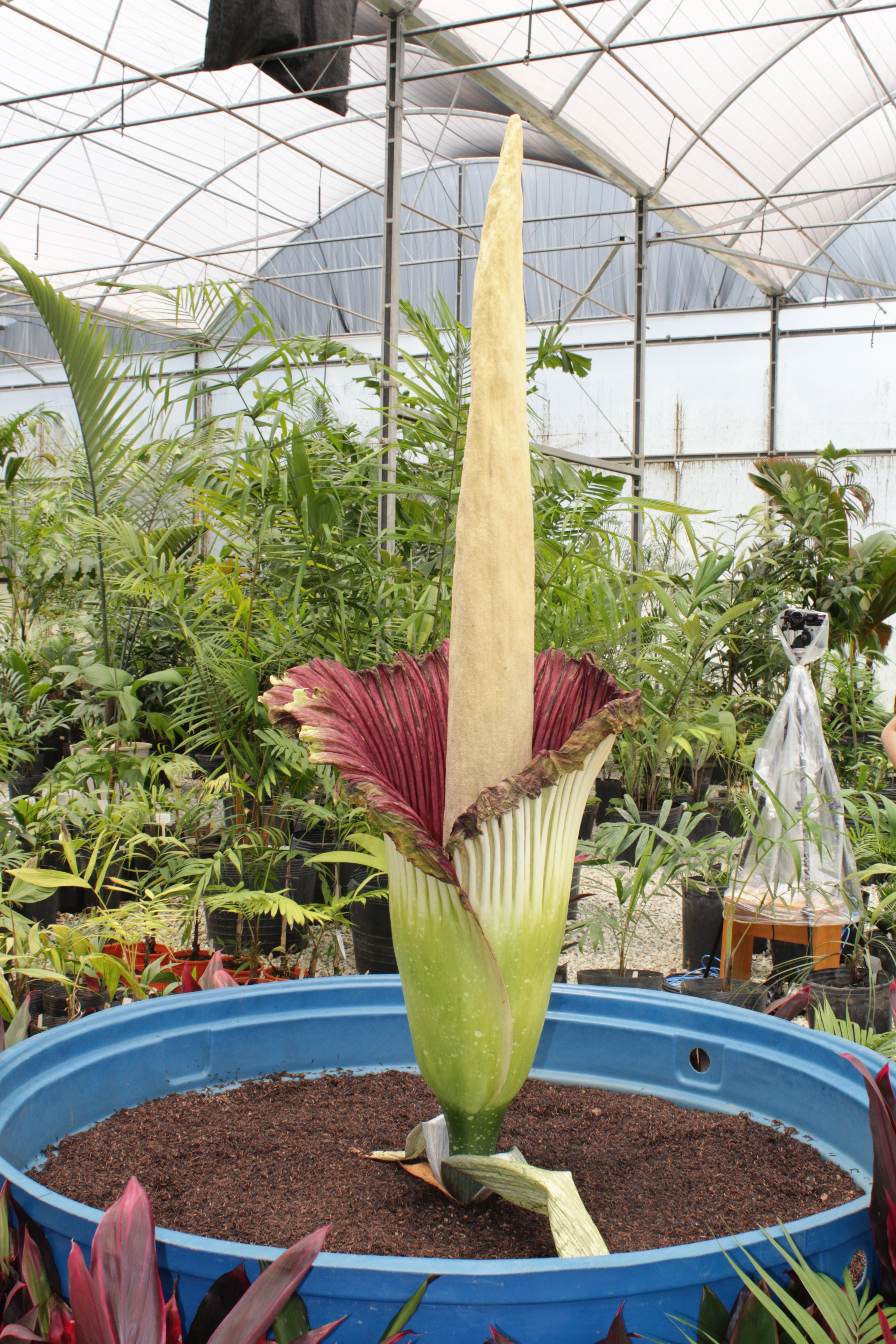 Amorphophallus titanum in Inhotim, Brazil, in December 2012.